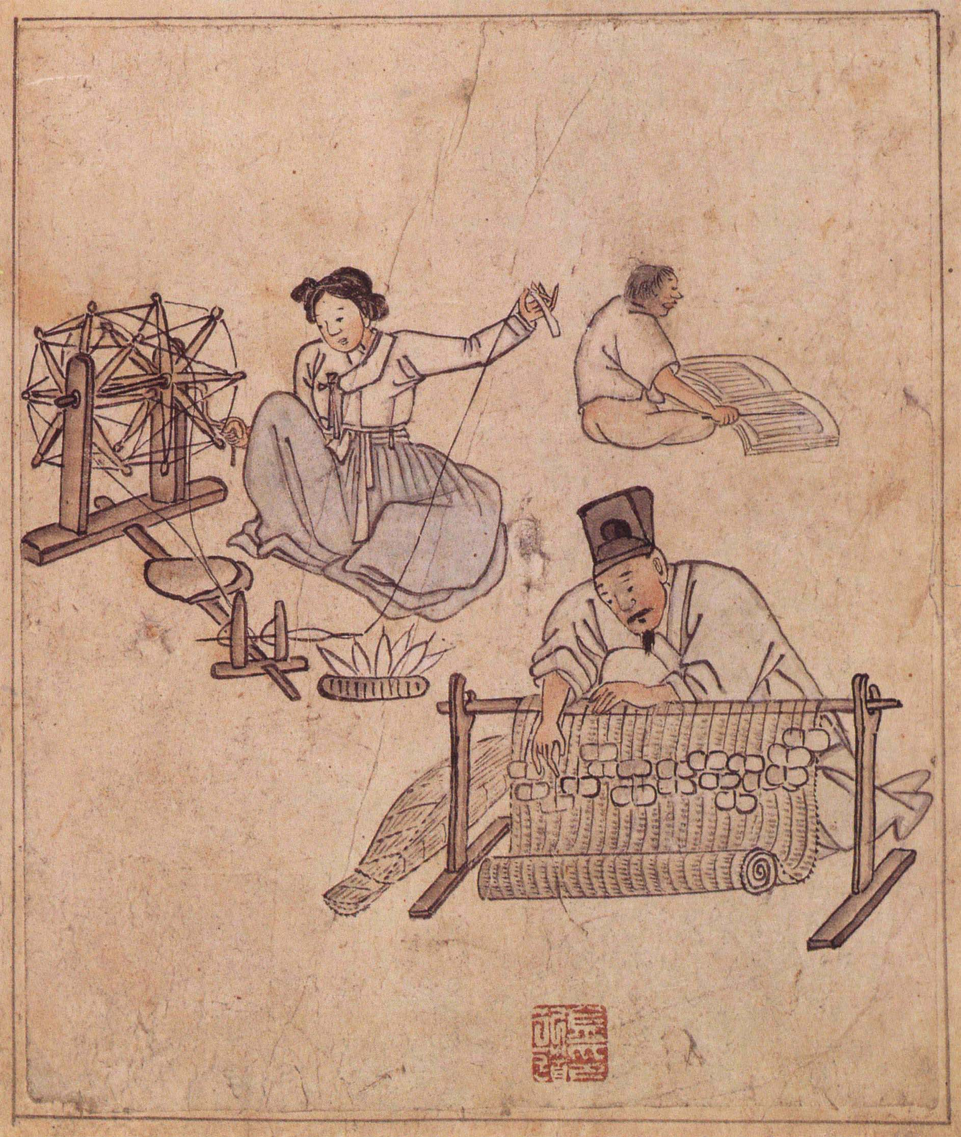 Weaving a mat